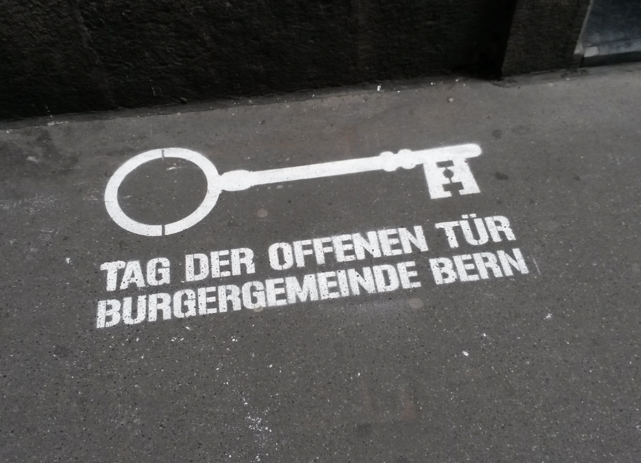 Burgergemeinde Bern